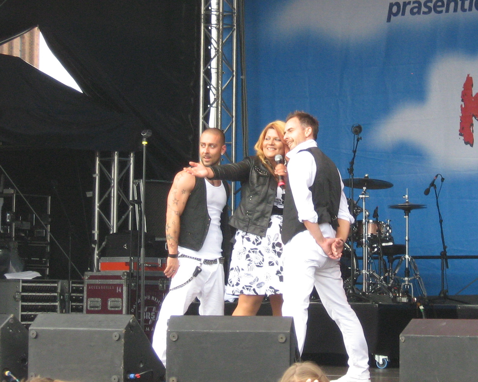 Groove Coverage in Bremen.